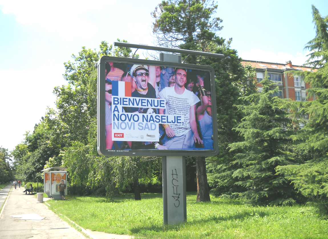 Welcome to Novo Naselje - billboard in French language in Novo Naselje (Bistrica) neighborhood of Novi Sad, posted during EXIT 2010 music festival.